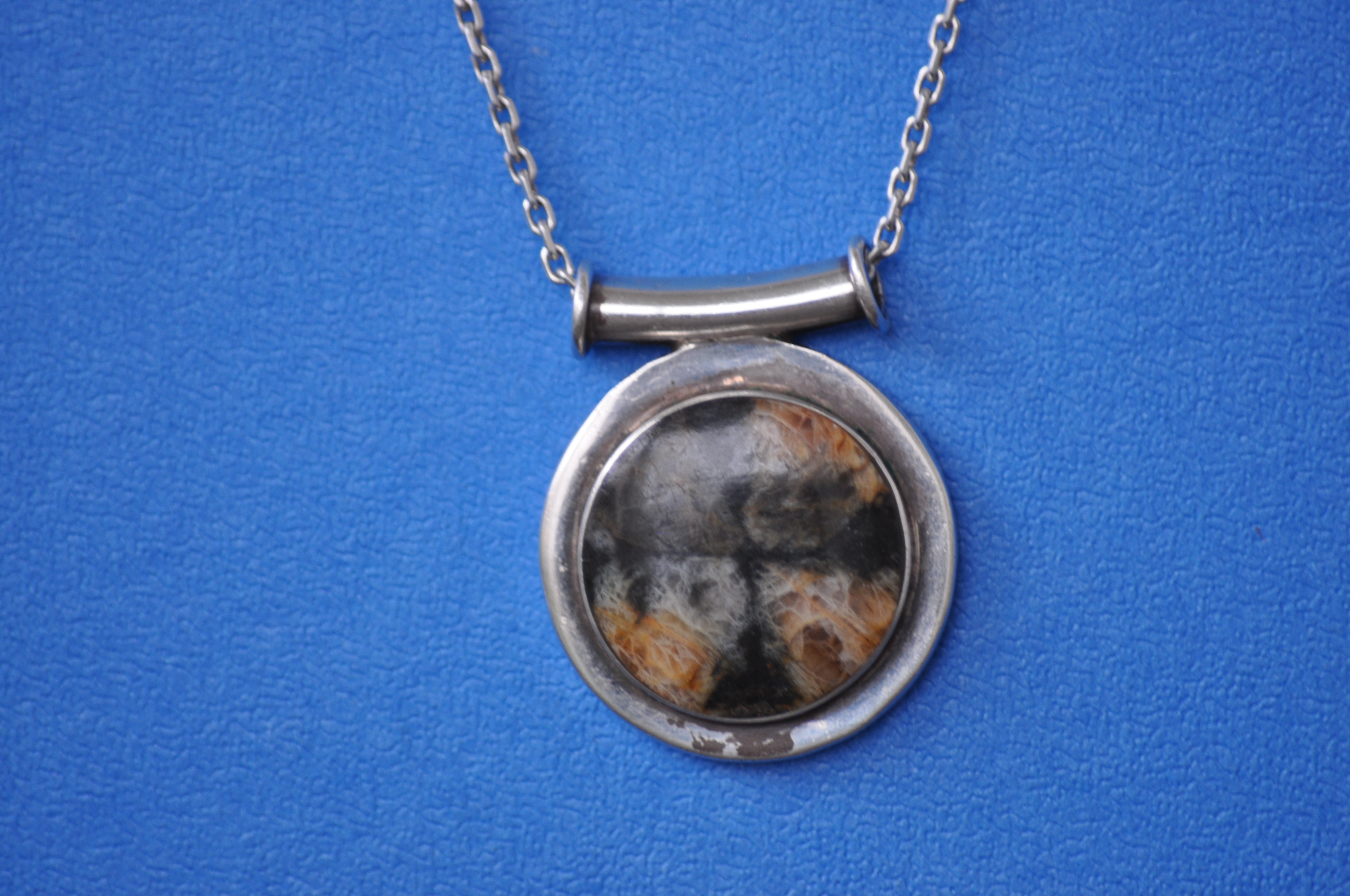 Andalusit var. Chiastolite, handmade jewelry from Laraquete, Bío Bío Region, Chile.